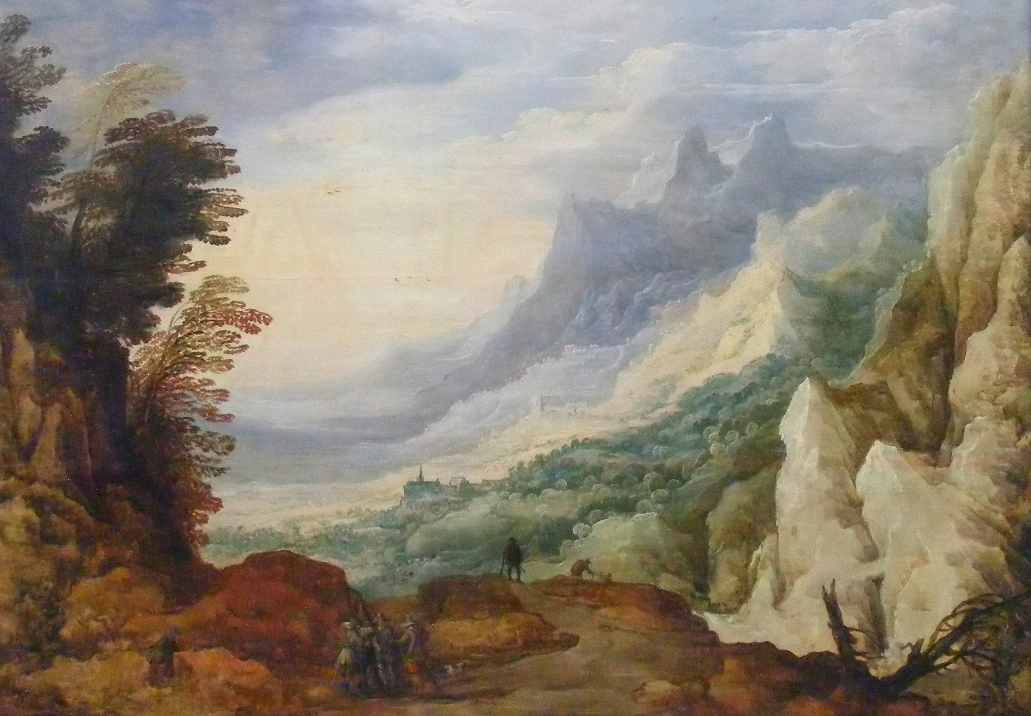 The ambushlabel QS:Lde,"Der Hinterhalt"label QS:Len,"The ambush"